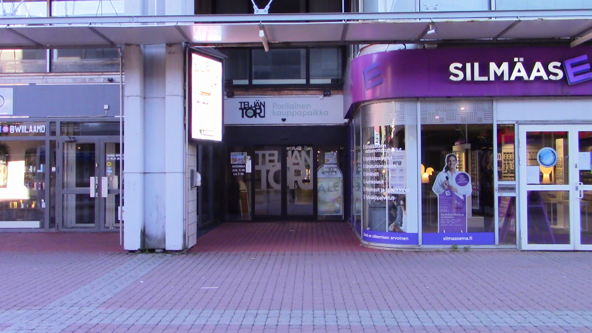 The entrance of Teljäntori shopping center at Yrjönkatu walk street in Pori, Finland.